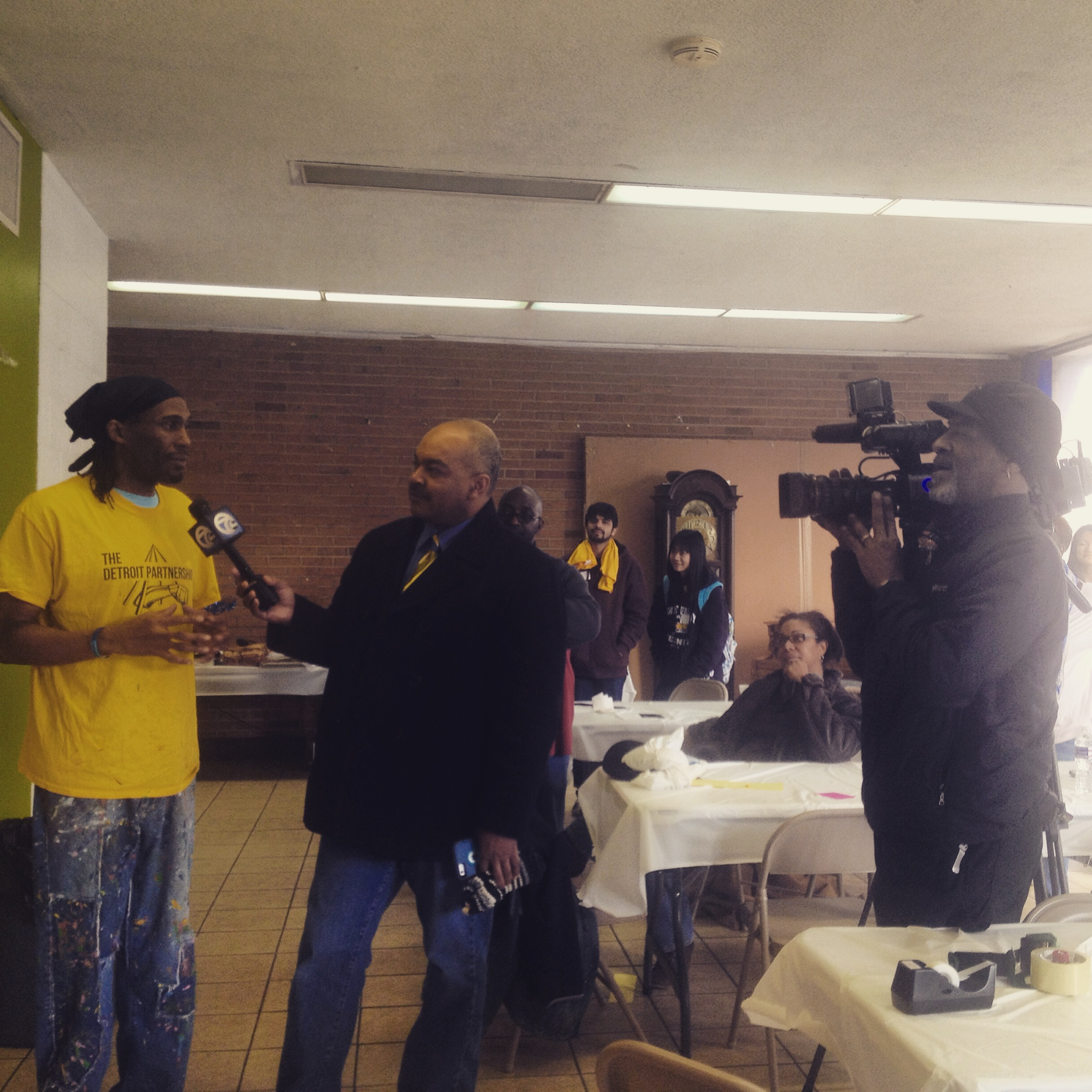 Chazz Miller founder of Detroit Public Art Workz, PAWZ and Artist Village is being interviewed by the Detroit Local News Media at the International Institute of Metropolitan Detroit.